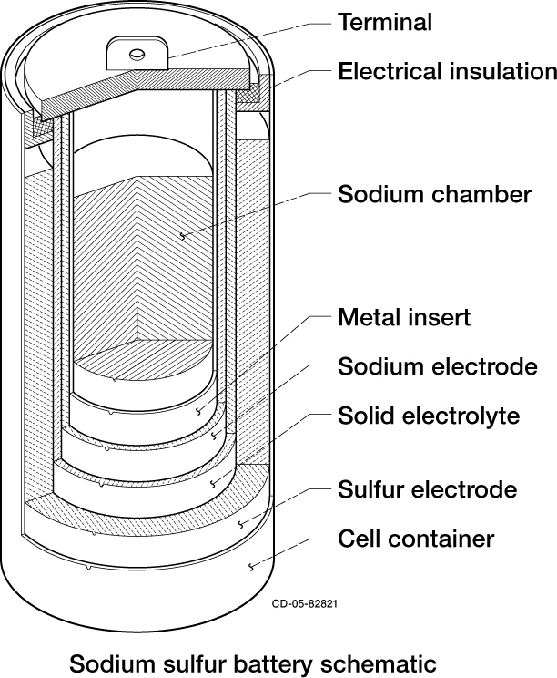 Cut-away schematic of Sodium-sulfur battery. This image was made by NASA John Glenn Research Center. It is a U.S. Government image, and no copyright is asserted.